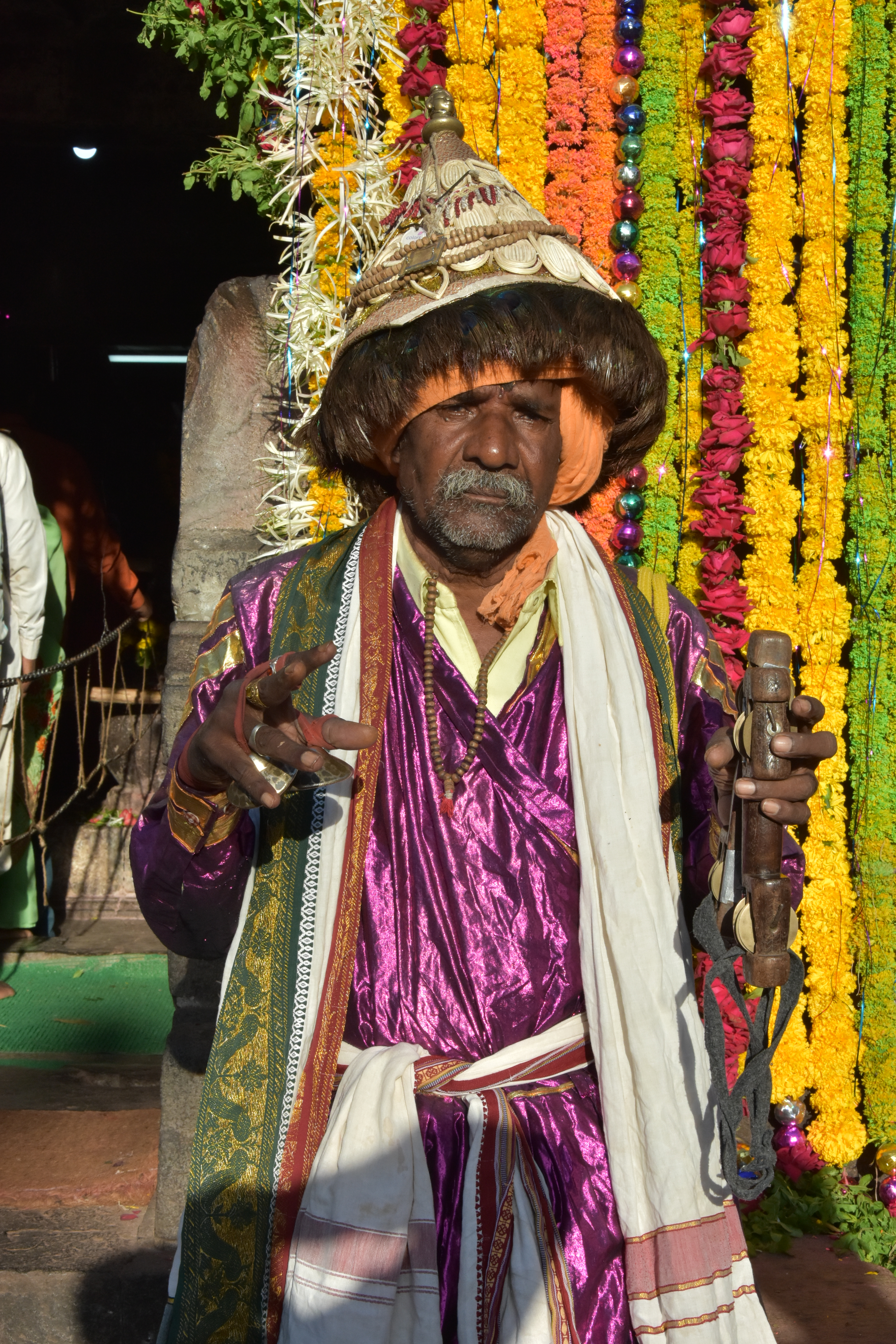 Folk Artist from Maharashtra